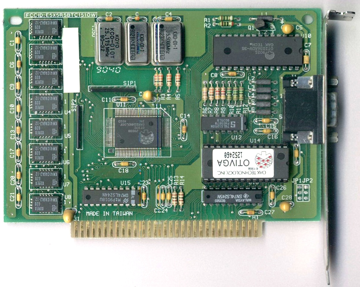 Oak Technology VGA-Card